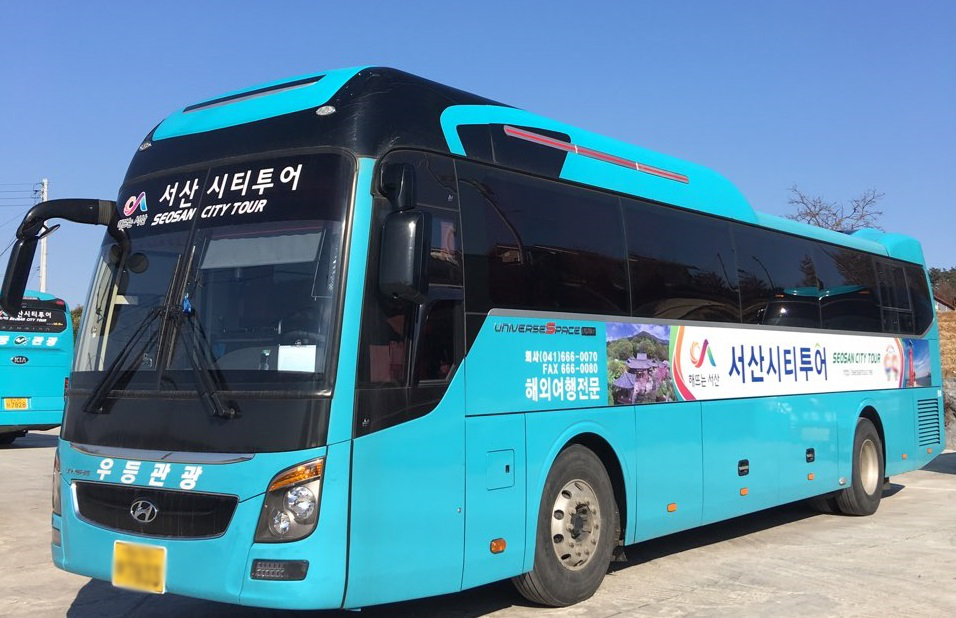 Seosan City Tour Bus